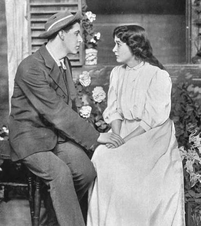 Two actors, Arthur Vezin and Lottie Alter, seated and holding hands surrounded by flowers, in a love scene from a 1908 play.